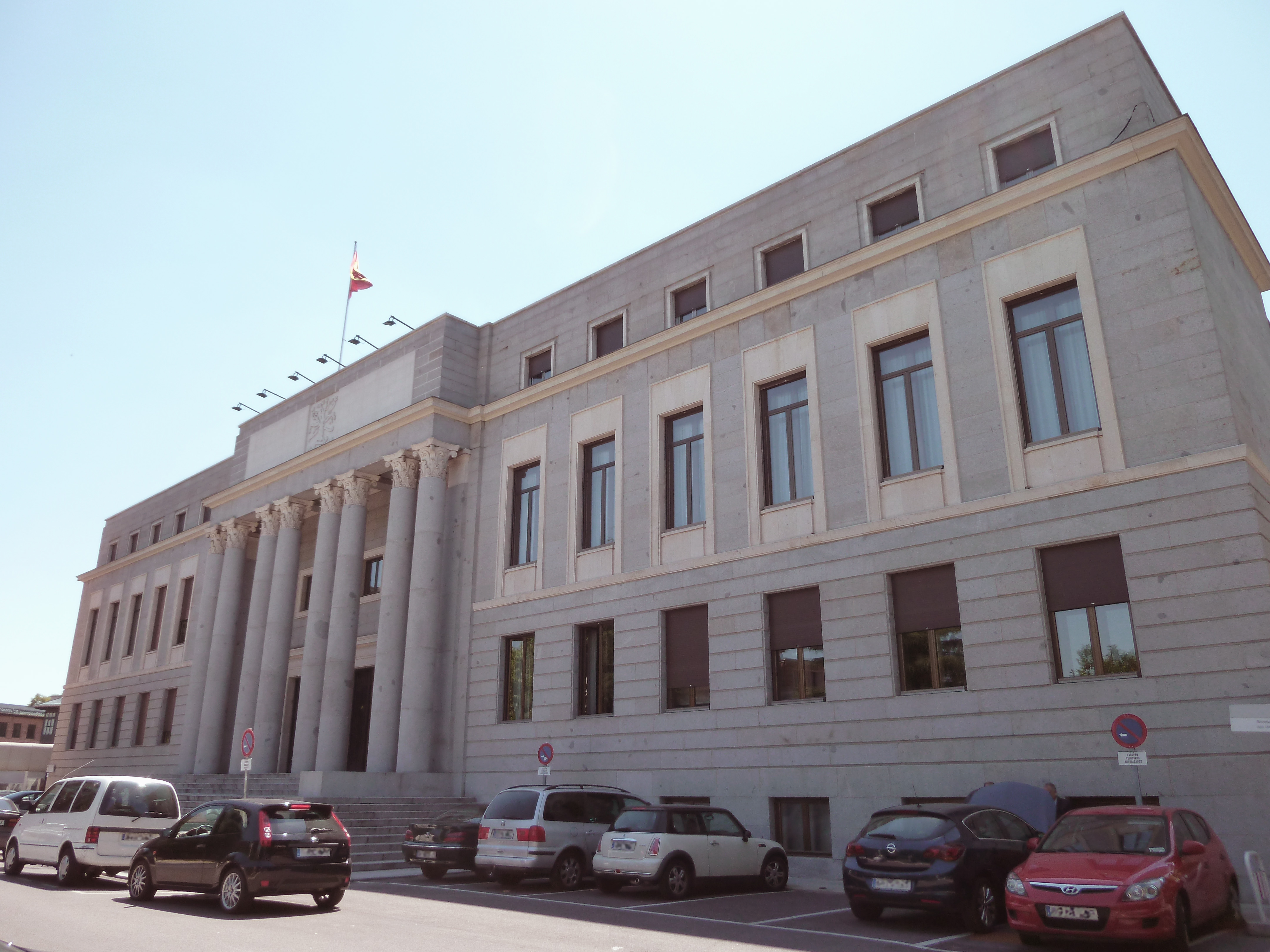 Façade of CSIC's central building, at 117 Calle de Serrano (street) in Chamartín district in Madrid (Spain). Projected in 1942 by Ricardo Fernández Vallespín and Miguel Fisac Serna, and built in 1943.